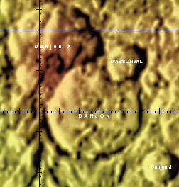 Color-coded topography LAC 83 image from USGS Digital Atlas.